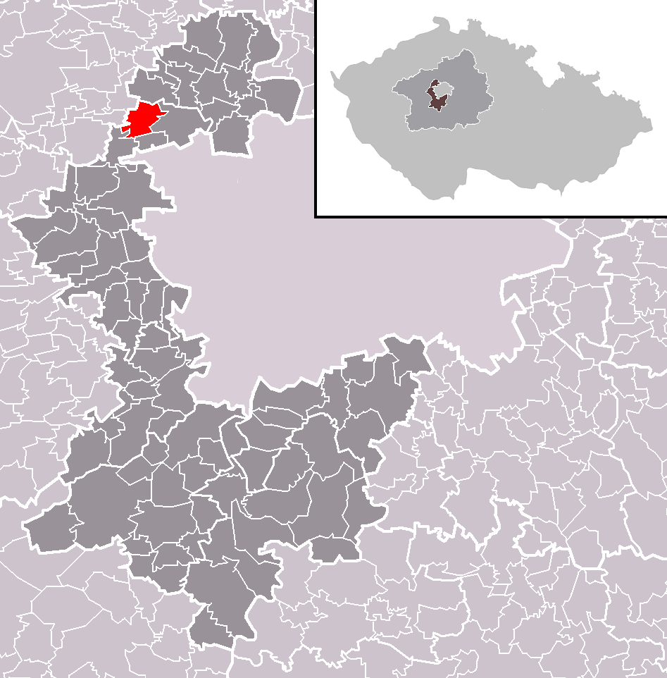 Location of Středokluky municipality within Prague-West District and administrative area of Černošice as a Municipality with Extended Competence.